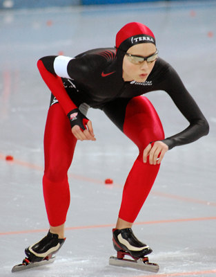 Hege Bøkko National Championship single distances, Hamar November 2nd 2008